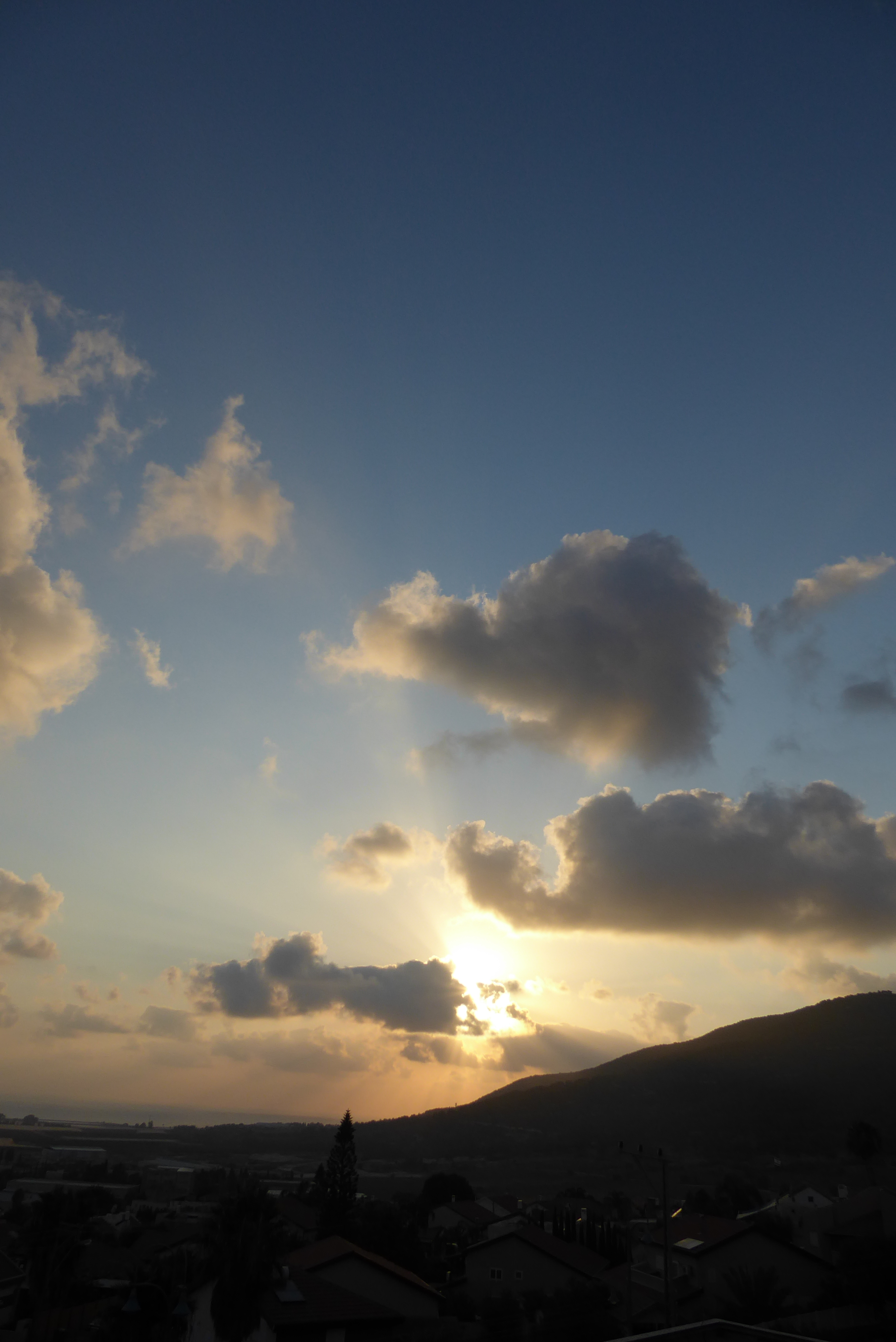 Shlomi (Hebrew: שְׁלוֹמִי) is a town in the Northern District of Israel.